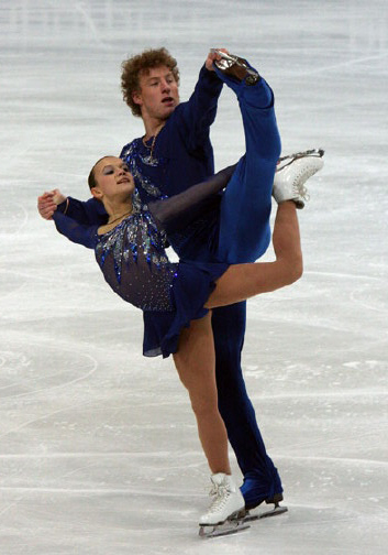 Lubov ILIUSHECHKINA & Nodari MAISURADZE (RUS) perform interlocking catch-foot positions during their spiral sequence from their short program at the 2009 European Figure Skating Championships.